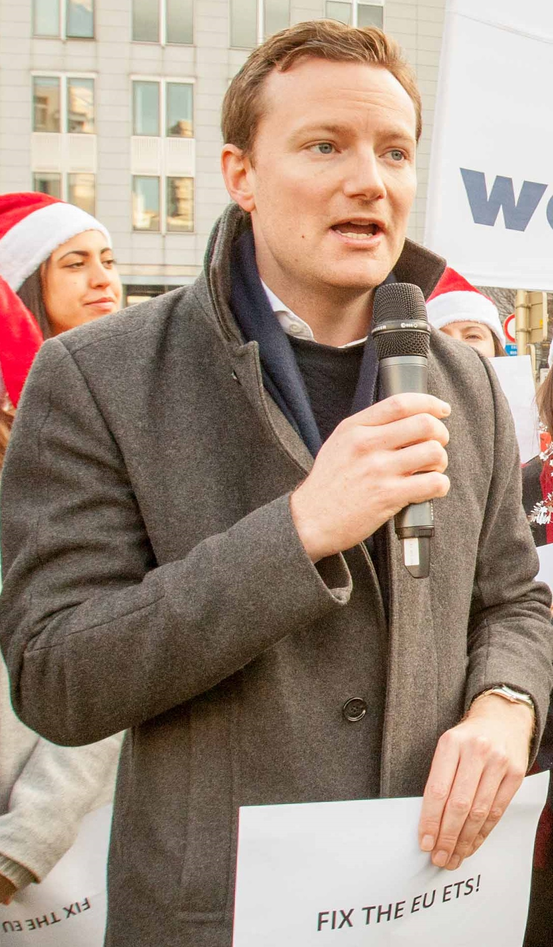 Seb Dance